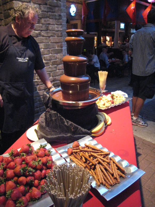 Chocolate Fountain